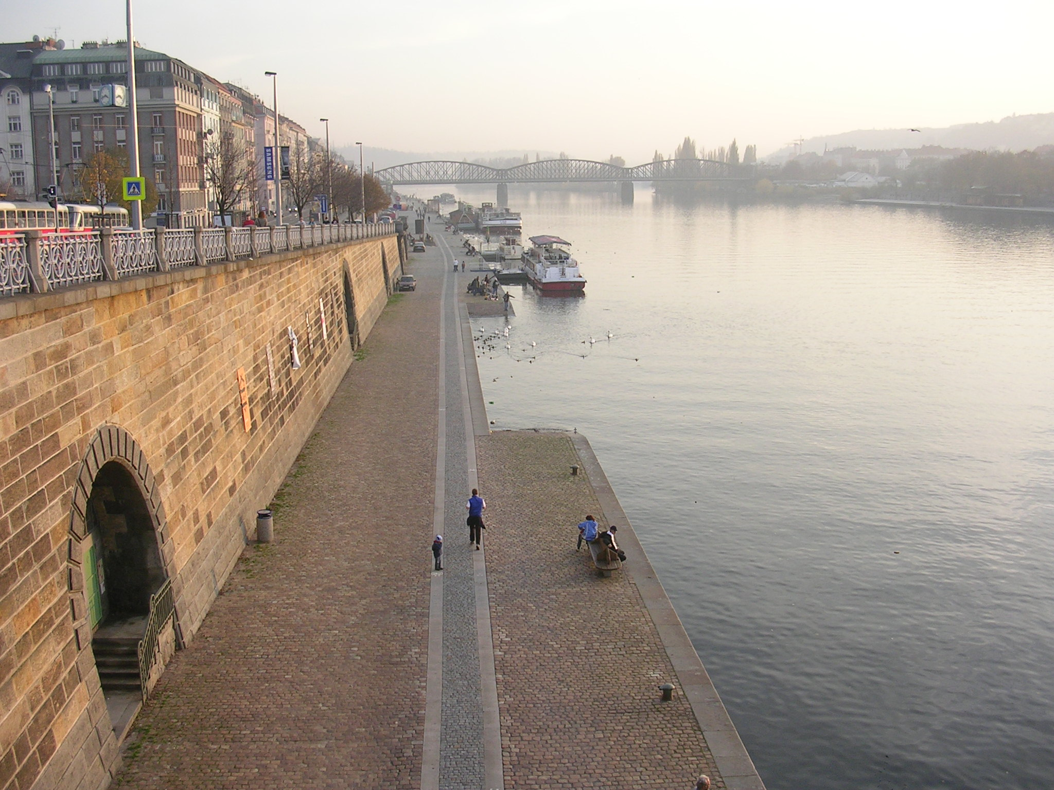 New Town, Prague.